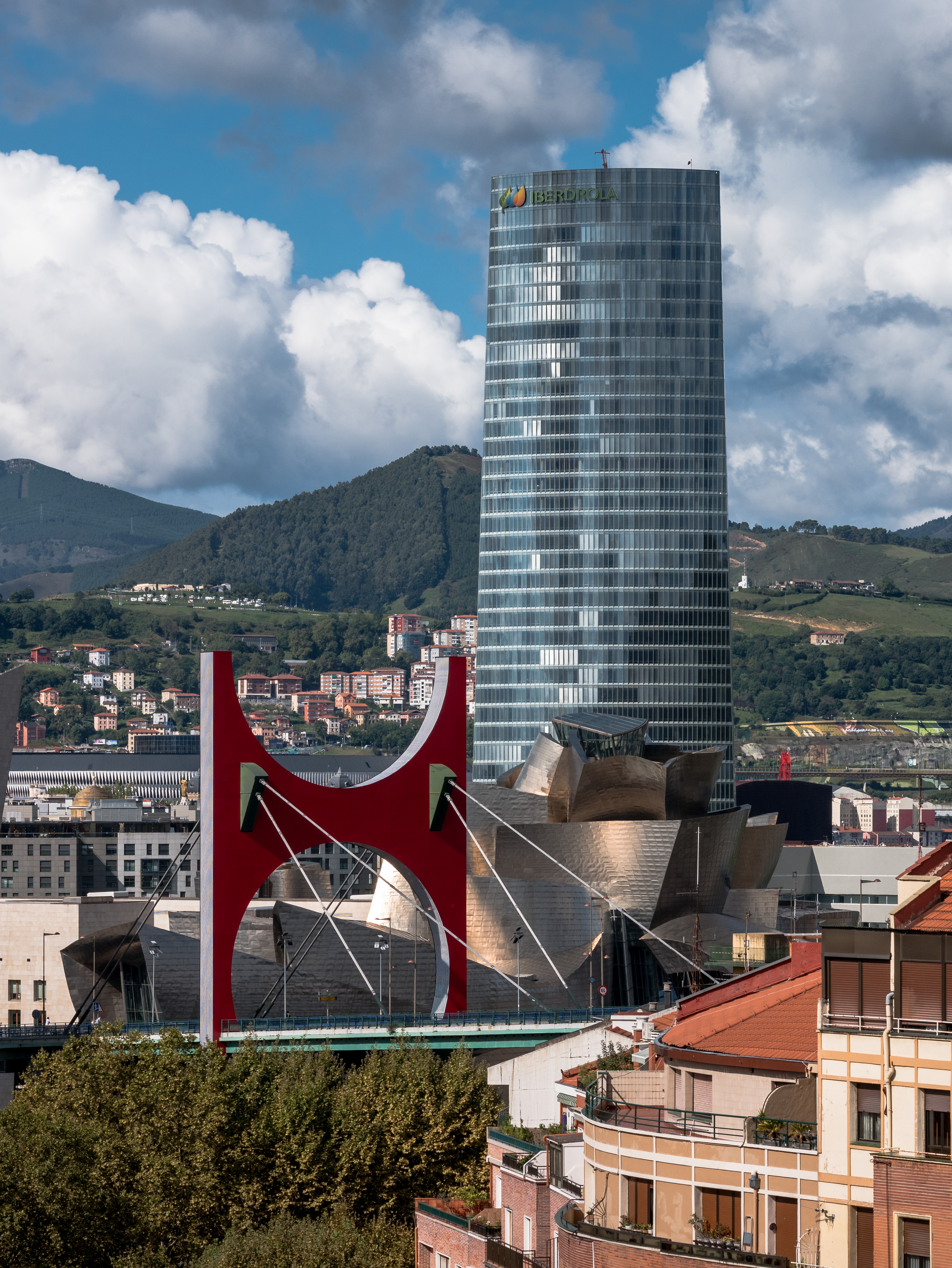 La Salve Bridge, behind the Guggenheim, Museum, behind the Iberdrola Tower. Bilbao, Biscay, Basque Country, Spain